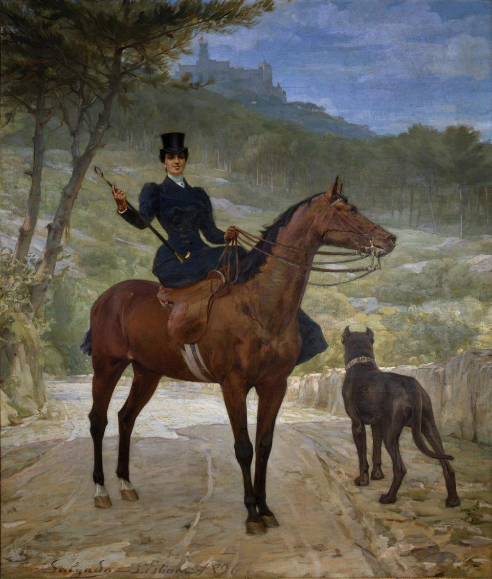 This equestrian portrait of Queen Dona Amélia was painted with the Royal Palace of Pena and Park as scenery.